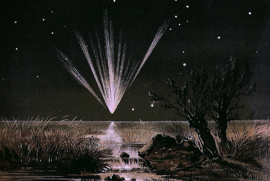 Great Comet of 1861, also known as C/1861 J1 or comet Tebbutt; drawing by E. Weiss[1]